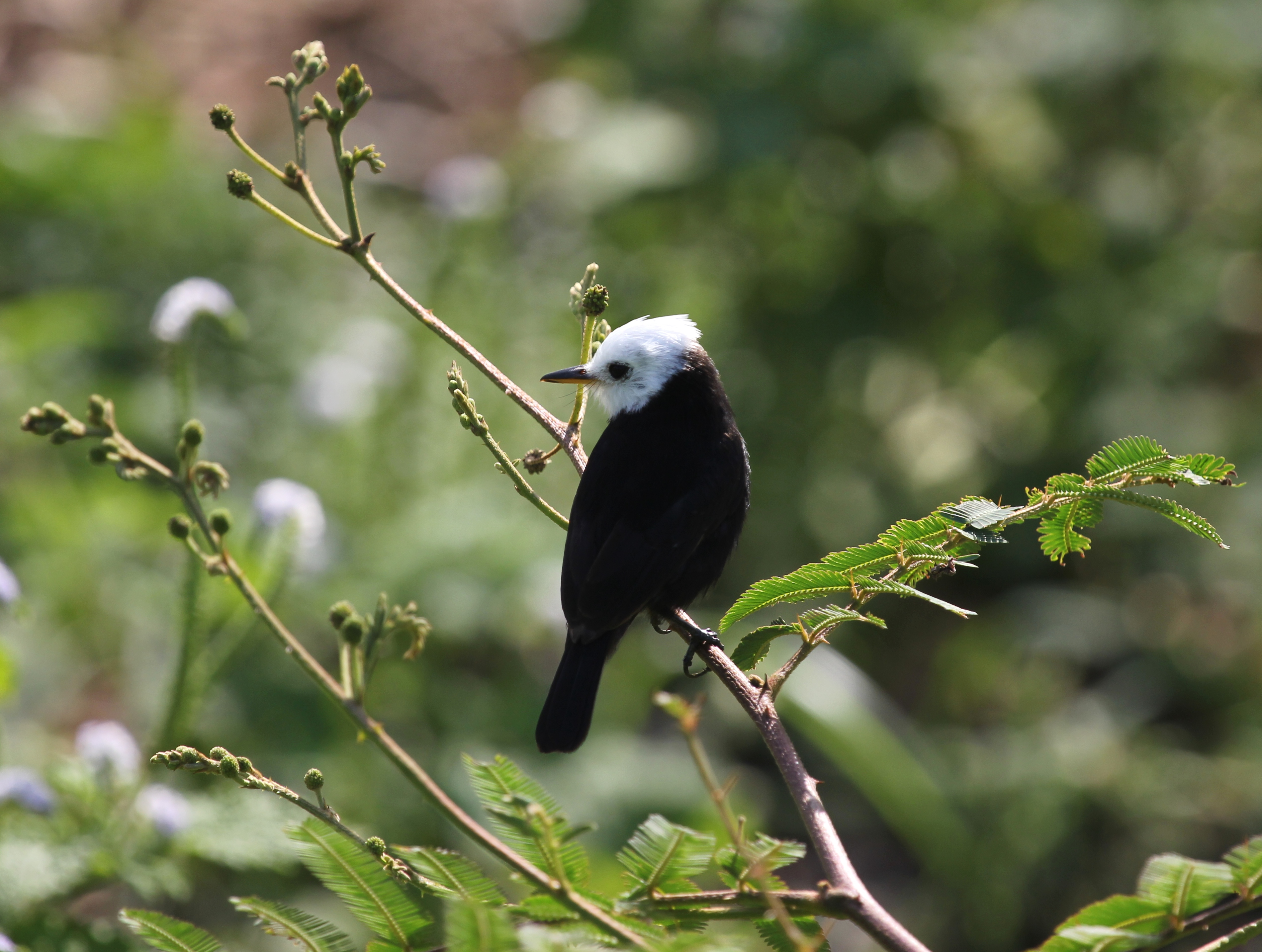 Male White-headed Marsh Tyrant (Arundinicola leucocephala) near the Transpantaneira in the Pantanal, Brazil